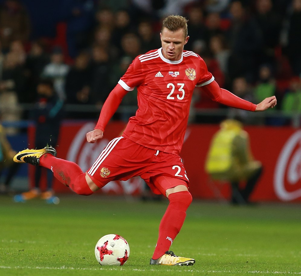 Dmitry Tarasov